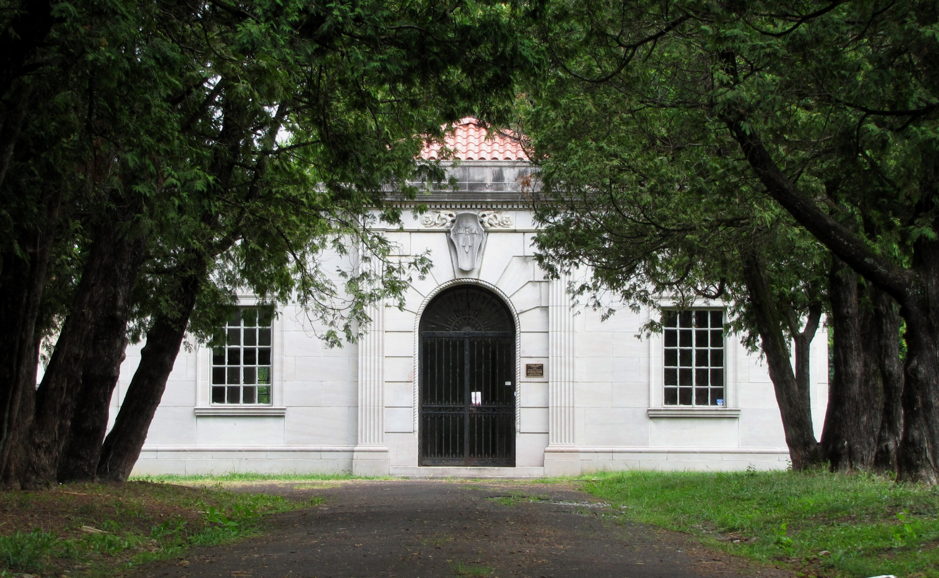 The Candoro Marble Works showroom in the Vestal community of Knoxville, Tennessee, USA. This building, constructed in 1923, was designed by architect Charles Barber, and is now listed as a contributing property in the NRHP-listed Candoro Marble Works historic district.